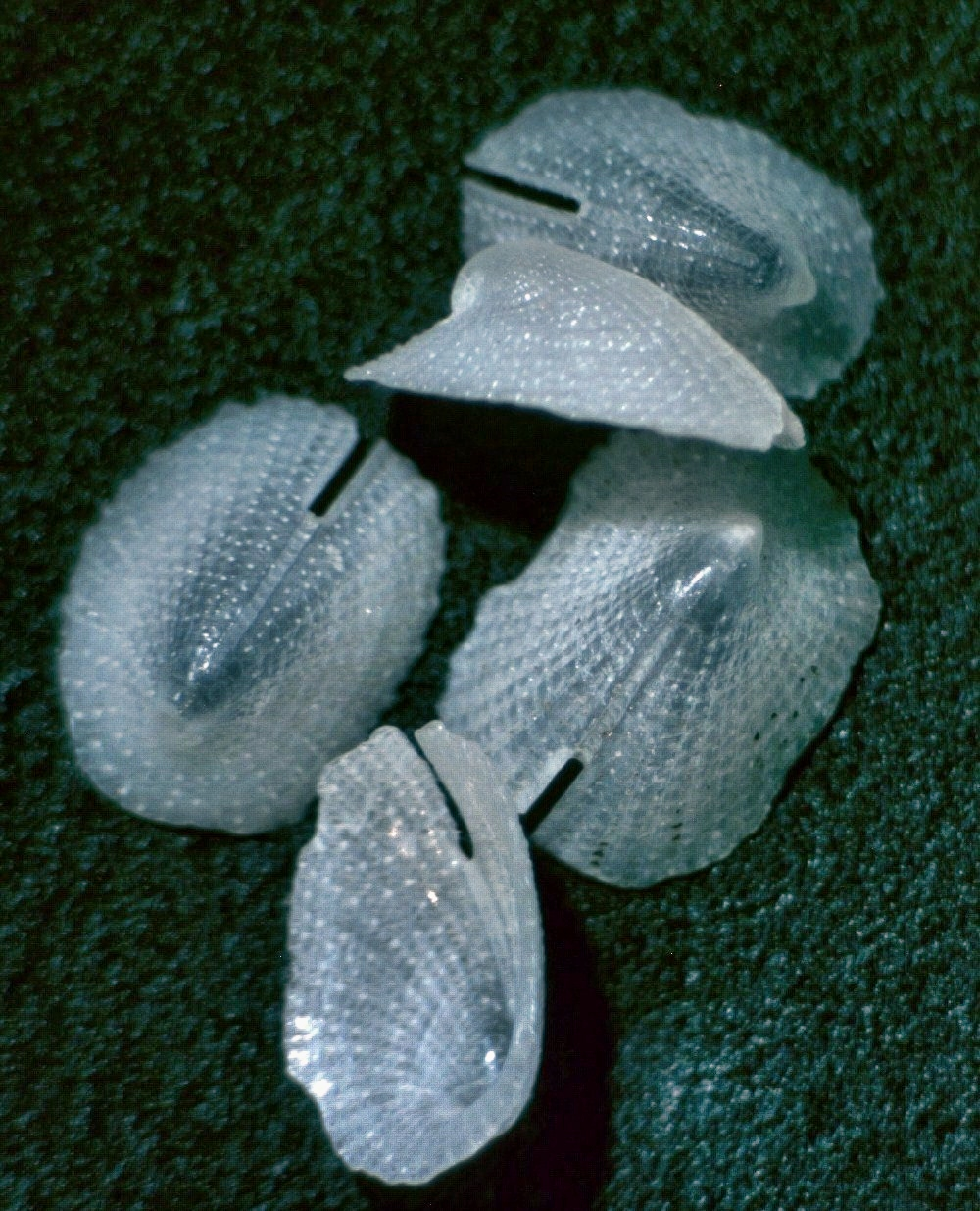 Emarginula solidula (Costa, 1829) a keyhole limpet from the family Fissurellidae